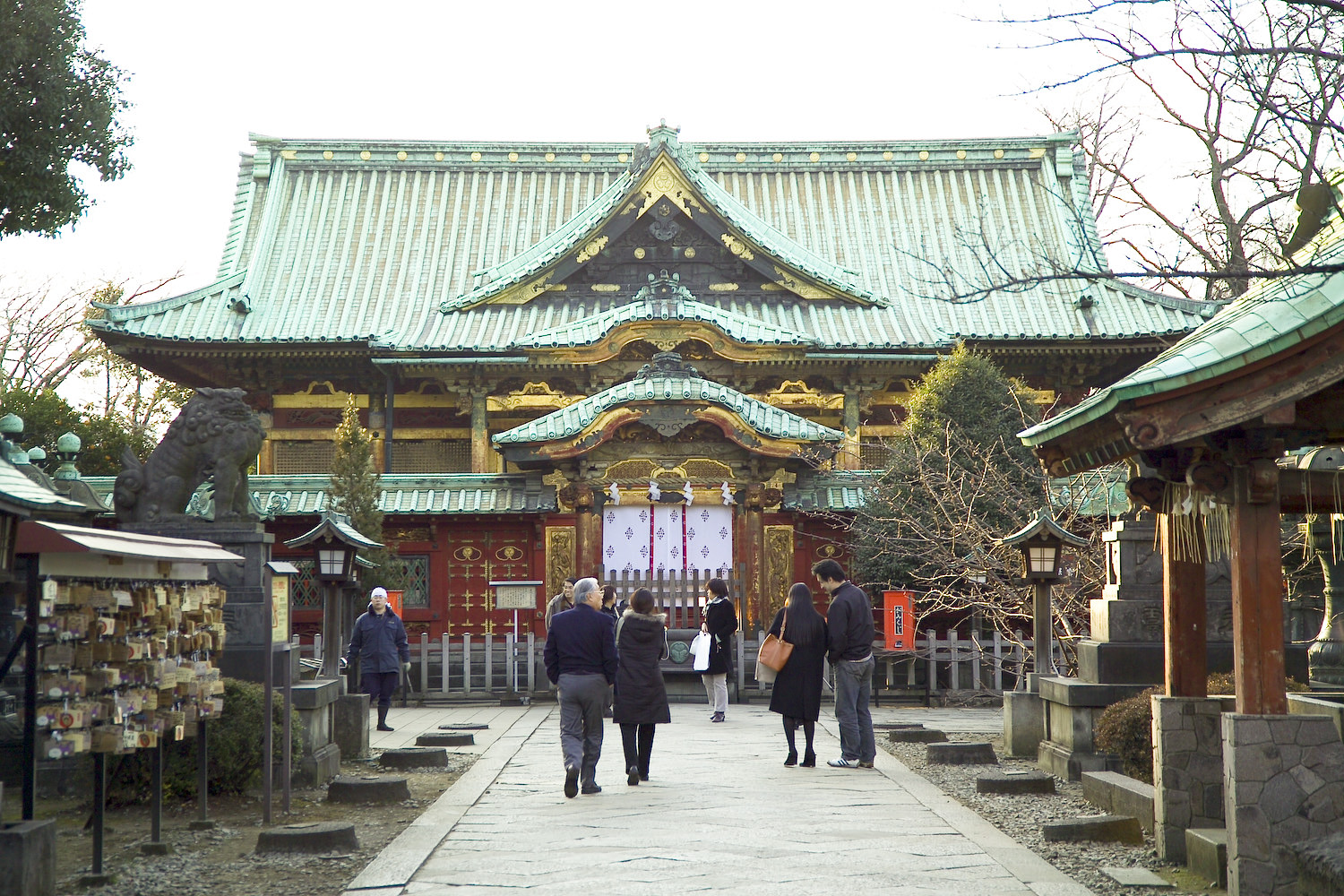 Ueno Tōshō-gū Shrine at Ueno Park. This photograph shows the Tōshō-gū, a Shinto shrine devoted to Tokugawa Ieyasu, in the Ueno neighborhood of Tokyo. I took the photo.